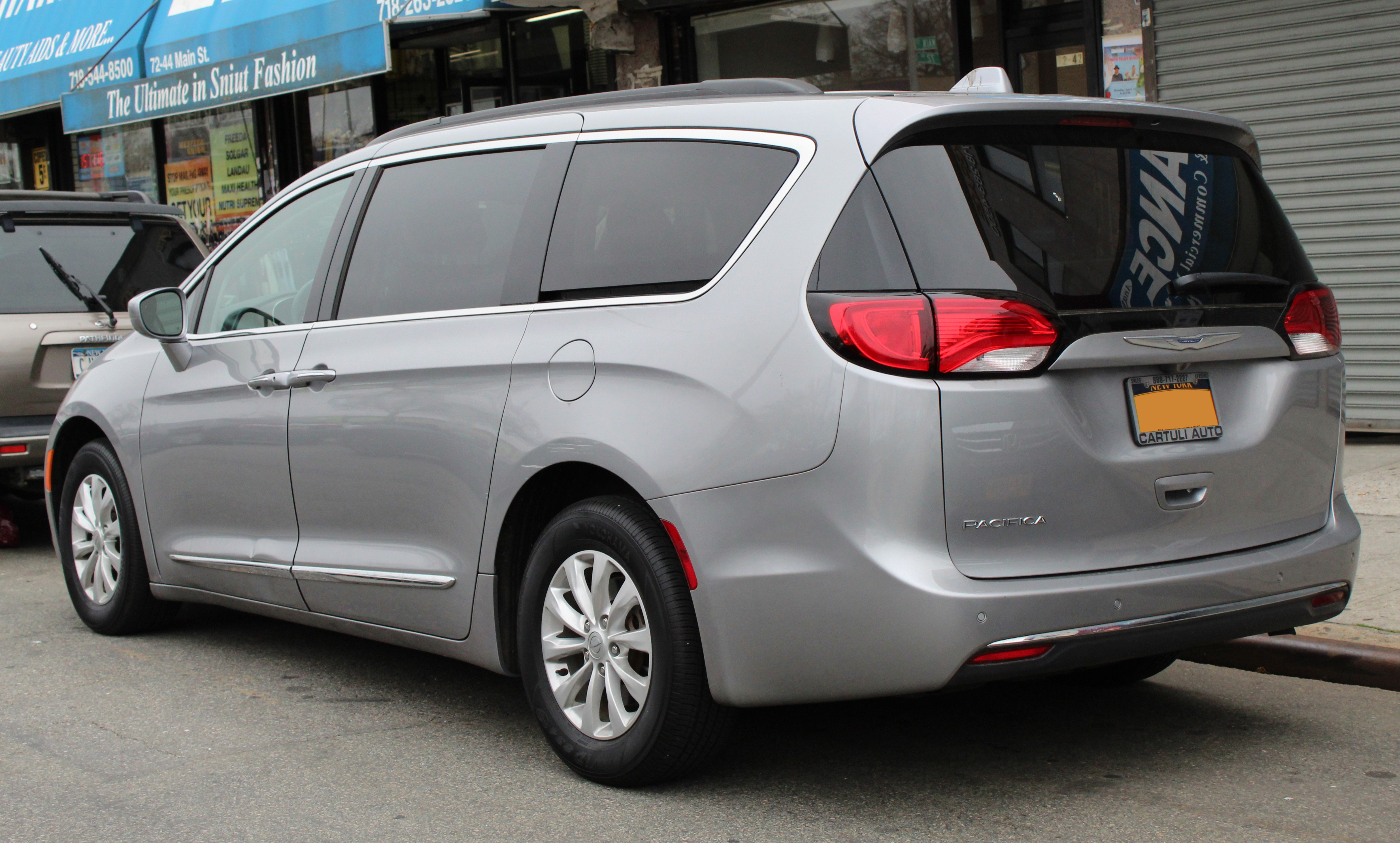 A 2019 Chrysler Pacifica photographed in Kew Garden Hills, Queens, New York, USA